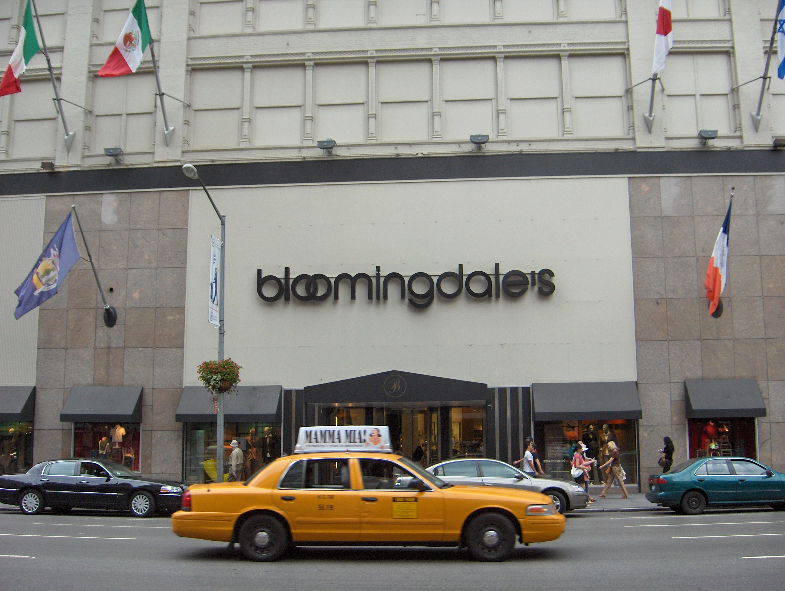 Main entrance of Bloomingdale's, New York City